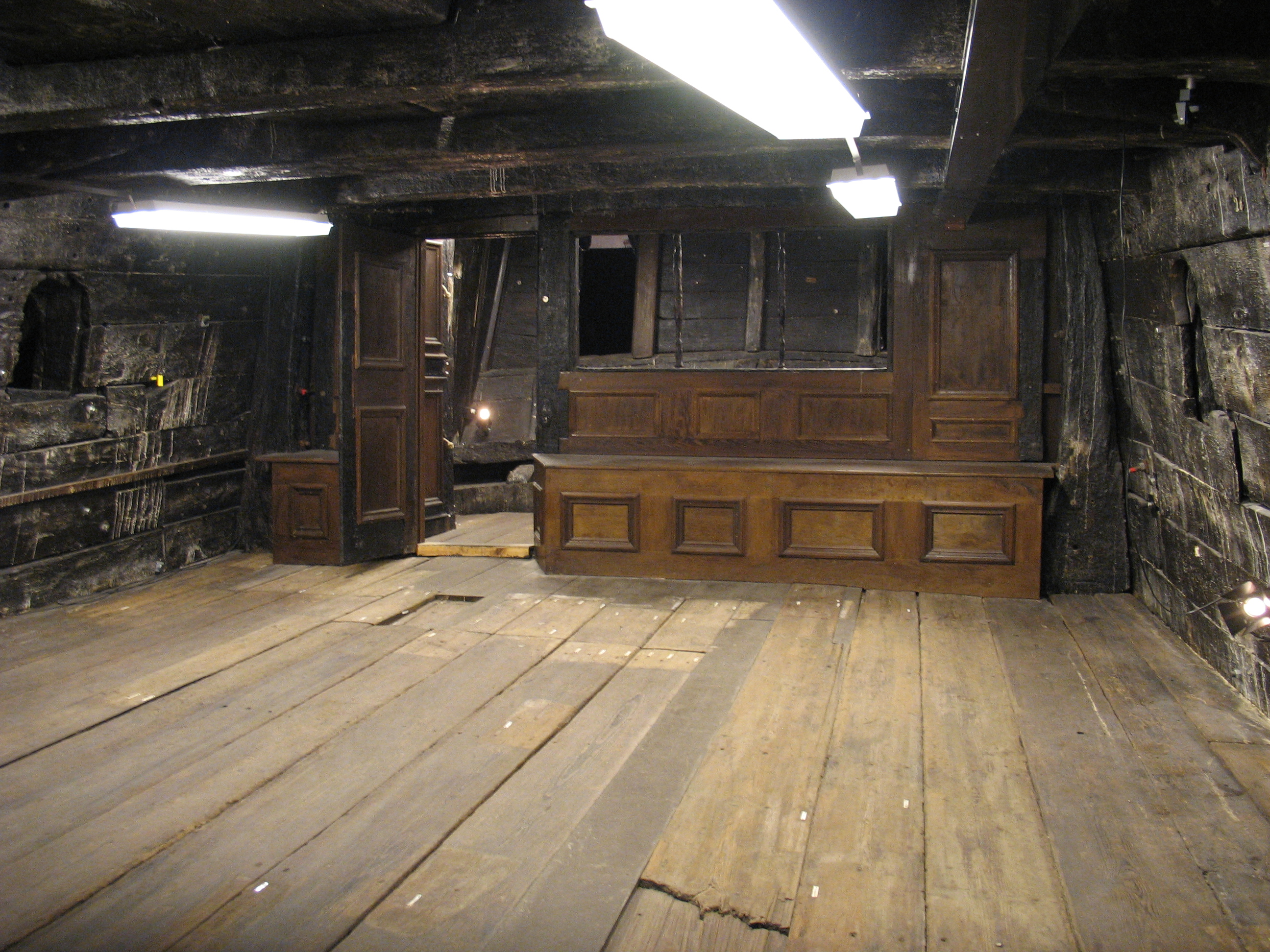 The great cabin on the upper gun deck of the warship Vasa, displayed in the Vasa Museum in Stockholm, Sweden. Picture taken inside the ship looking aft.